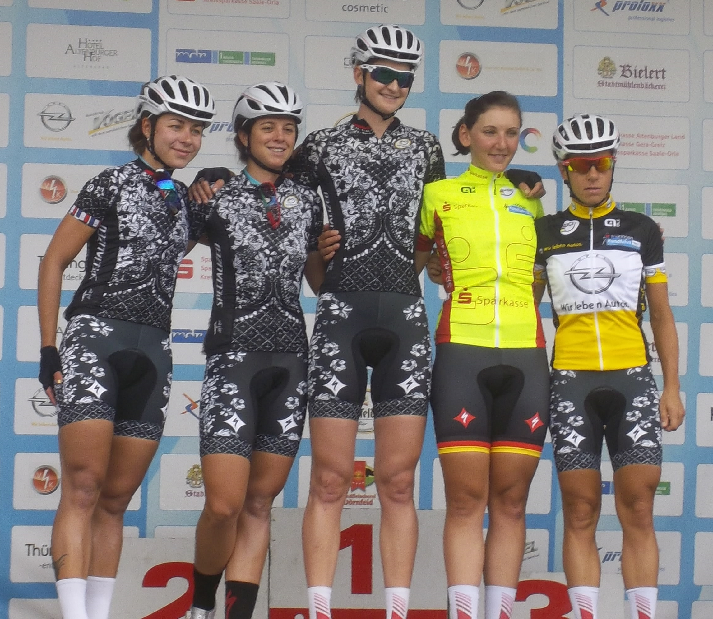 Specialized Lululemon team at Thuringen Rundfahrt 2014, presentation of stage 1.